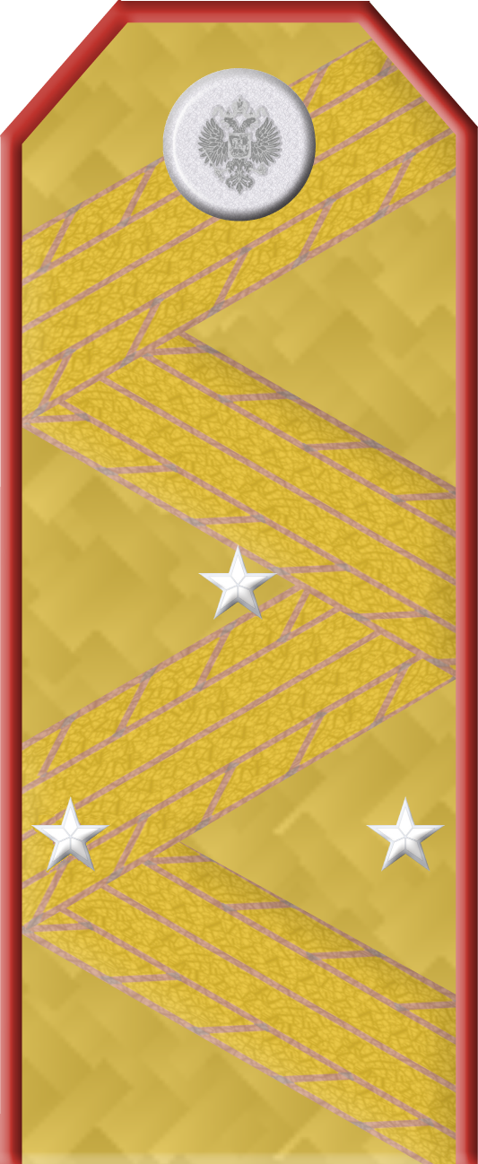 Rank insignia of the Imperial Russian Army (IRA) 1909-1917, here collar patch "Lieutenant general".